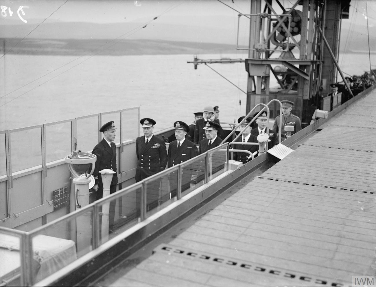 The King Pays 4-day Visit To the Home Fleet. 18 To 21 March 1943, at Scapa Flow, the King, Wearing the Uniform of An Admiral of the Fleet, Paid a 4-day Visit To the Home Fleet. The King on the bridge of the aircraft carrier HMS ARCHER, on his left is the Captain of HMS ARCHER and Admiral Commanding Aircraft Carriers, Admiral Lyster.